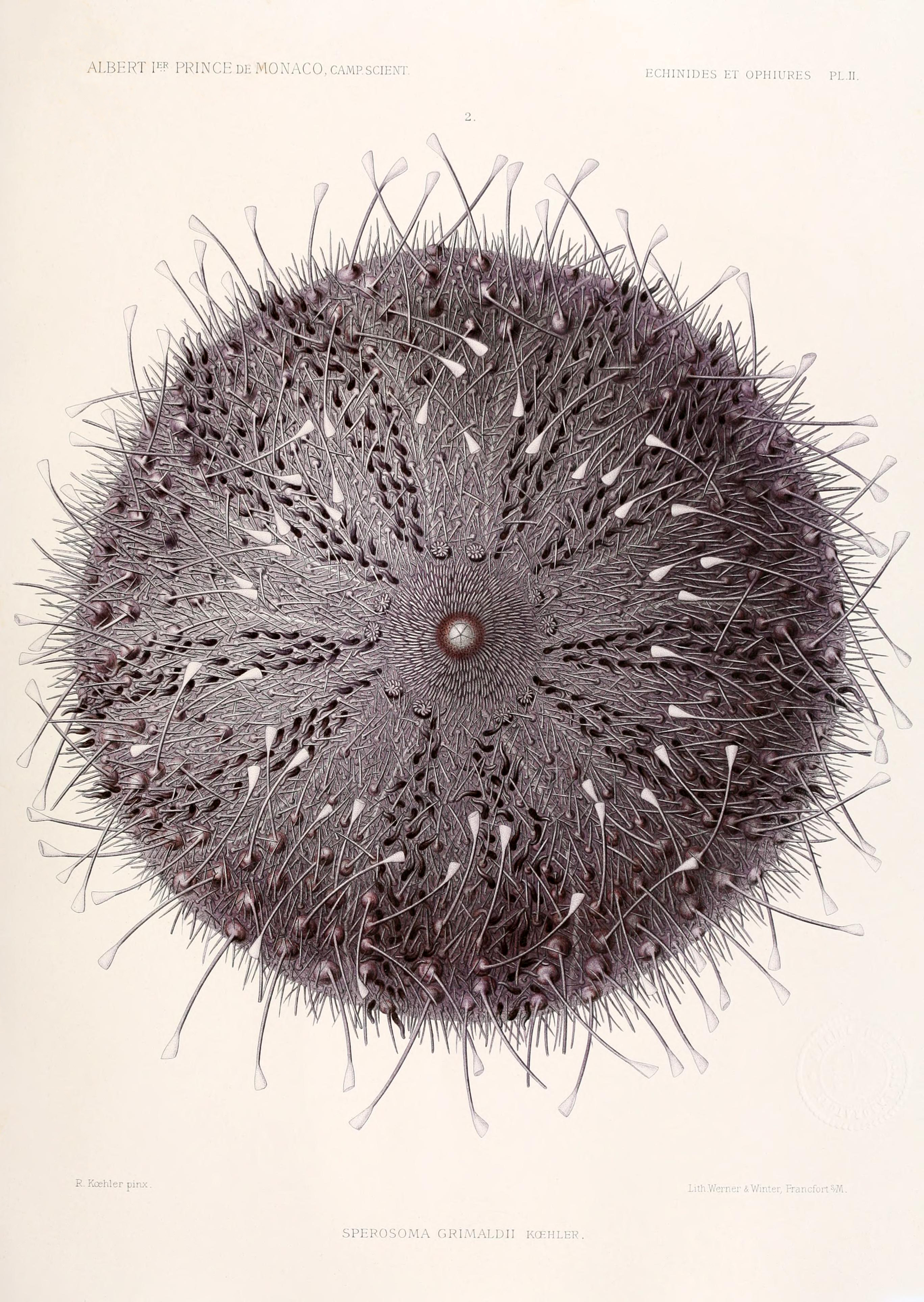 Planche II Title: Résultats des campagnes scientifiques accomplies sur son yacht par Albert Ier, prince souverain de Monaco publiés sous sa direction avec le concours de M. Jules Richard, Docteur ès-sciences, chargé des Travaux zoologiques à bord. Topics:Hirondelle (Yacht), Zoology, Marine animals, Scientific expeditions Publisher: Imprimerie de Monaco Volume: Fascicule XII, Échinides et ophiures provenant des campagnes du Yatch l'Hirondelle (Golfe de Gascogne, Açores, Terre-Neuve) Text Appearing at page 84: LEGENDE DE LA PLANCHE II Fig. 2. Sperosoma Grimaldii Kœhler . Face ventrale. Grandeur naturelle. Species Sperosoma grimaldii = Sperosoma grimaldii Koehler, 1897